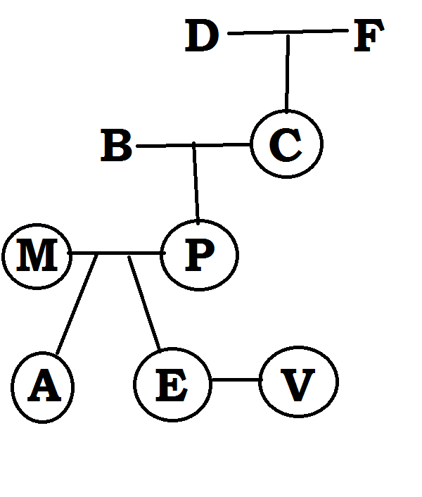 Diagram illustrating example of order of succession in South African law.